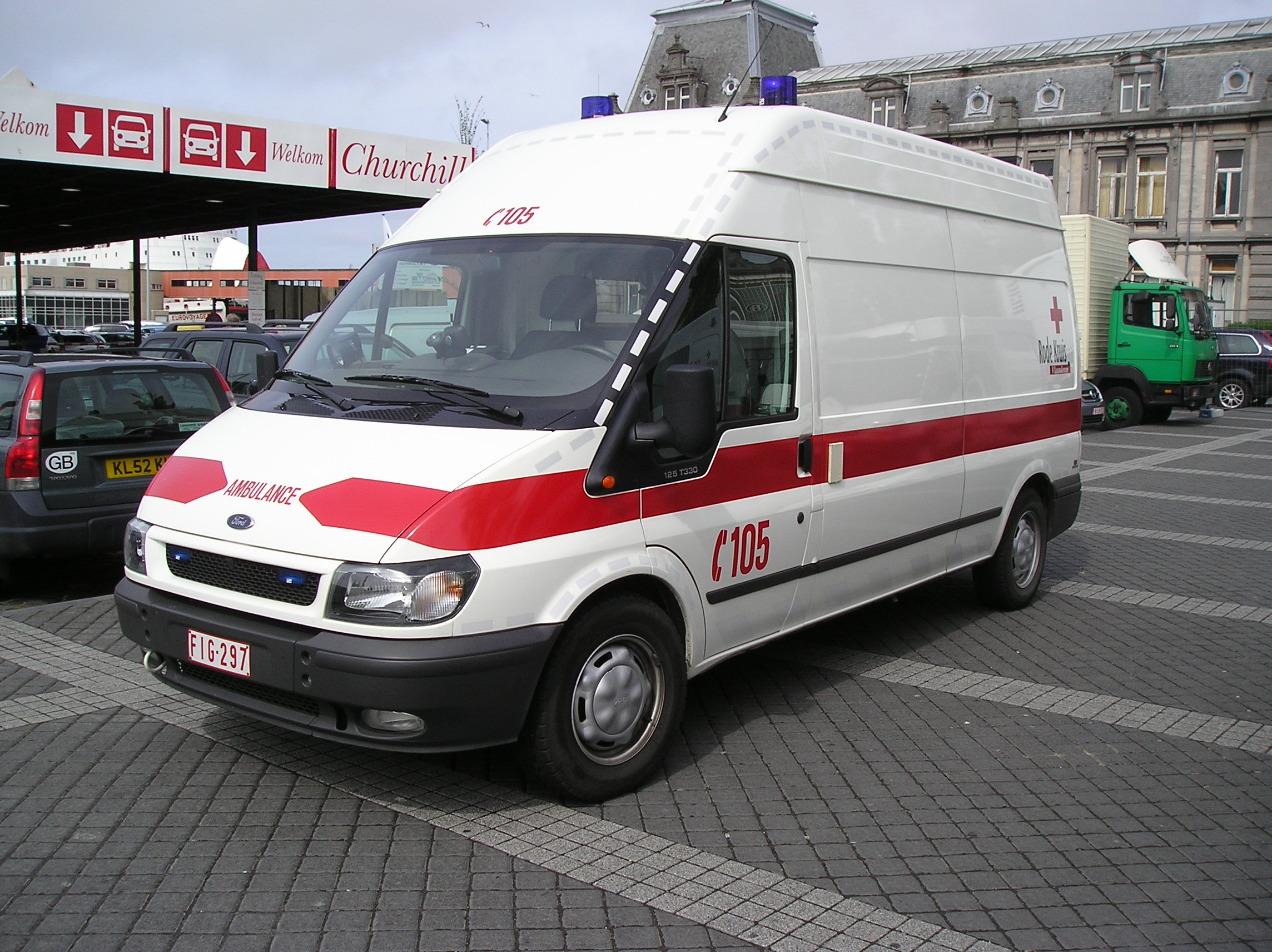 Ambulace of the Belgian Red Cross in Ostend, Belgium, near the ferry terminal and the train station